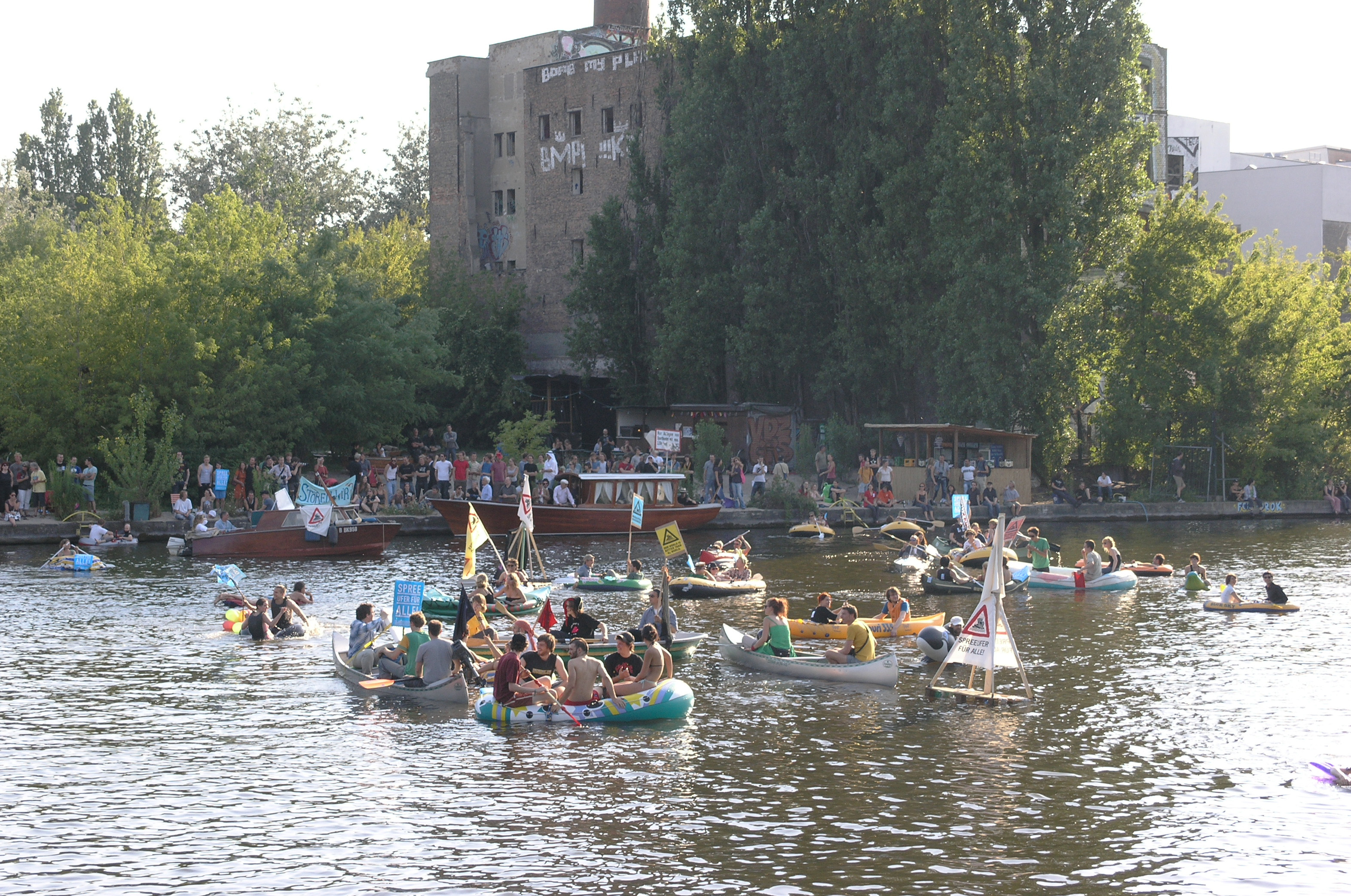 Demonstration against Mediaspree.